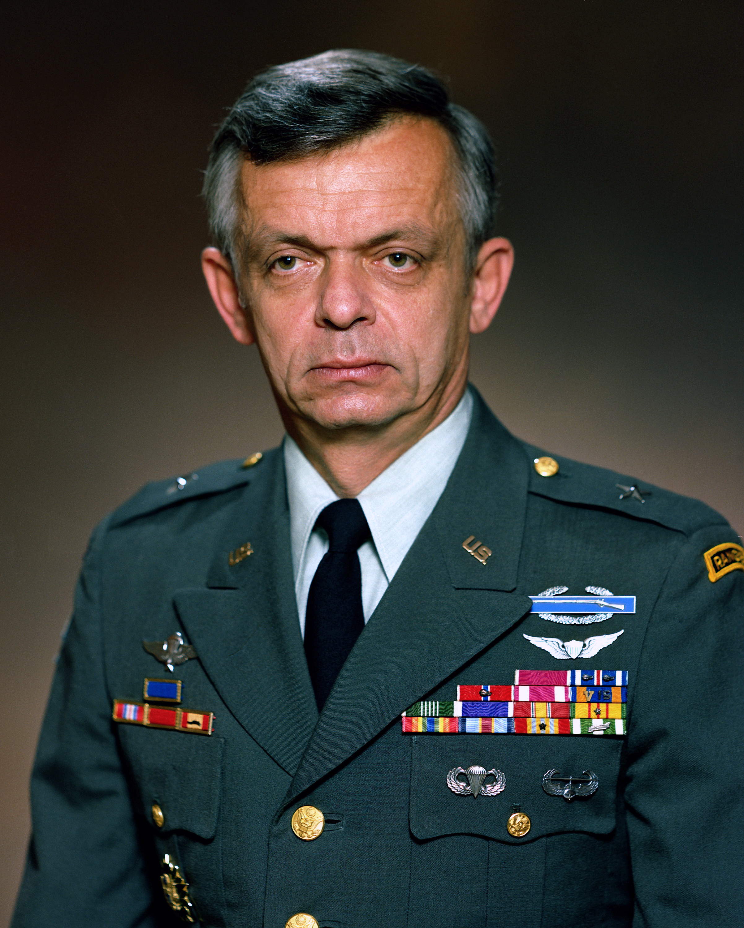 BGEN Gary E. Luck, USA (uncovered)